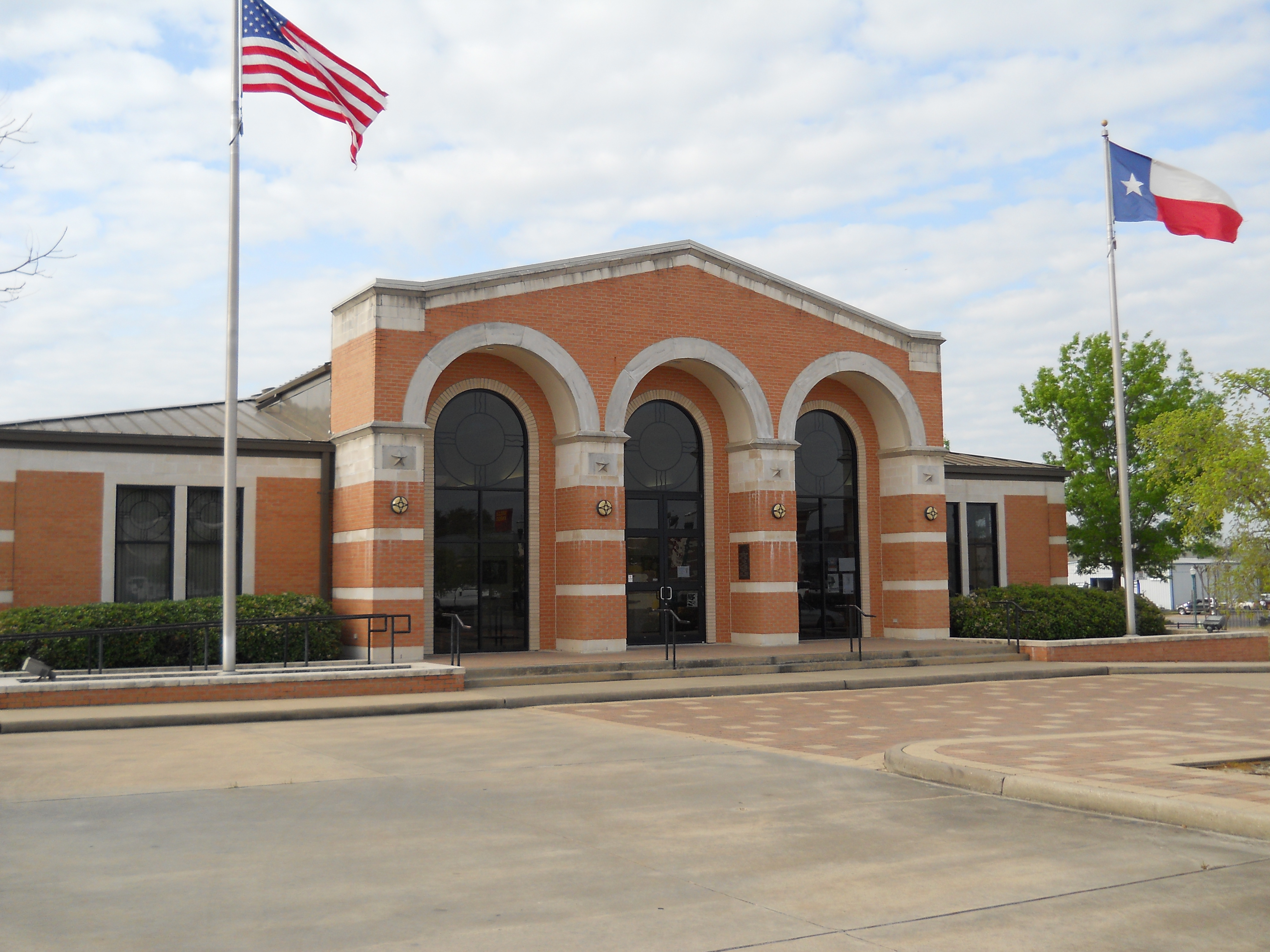 City of Conroe, TX, Chamber of Commerce and visitor information center.